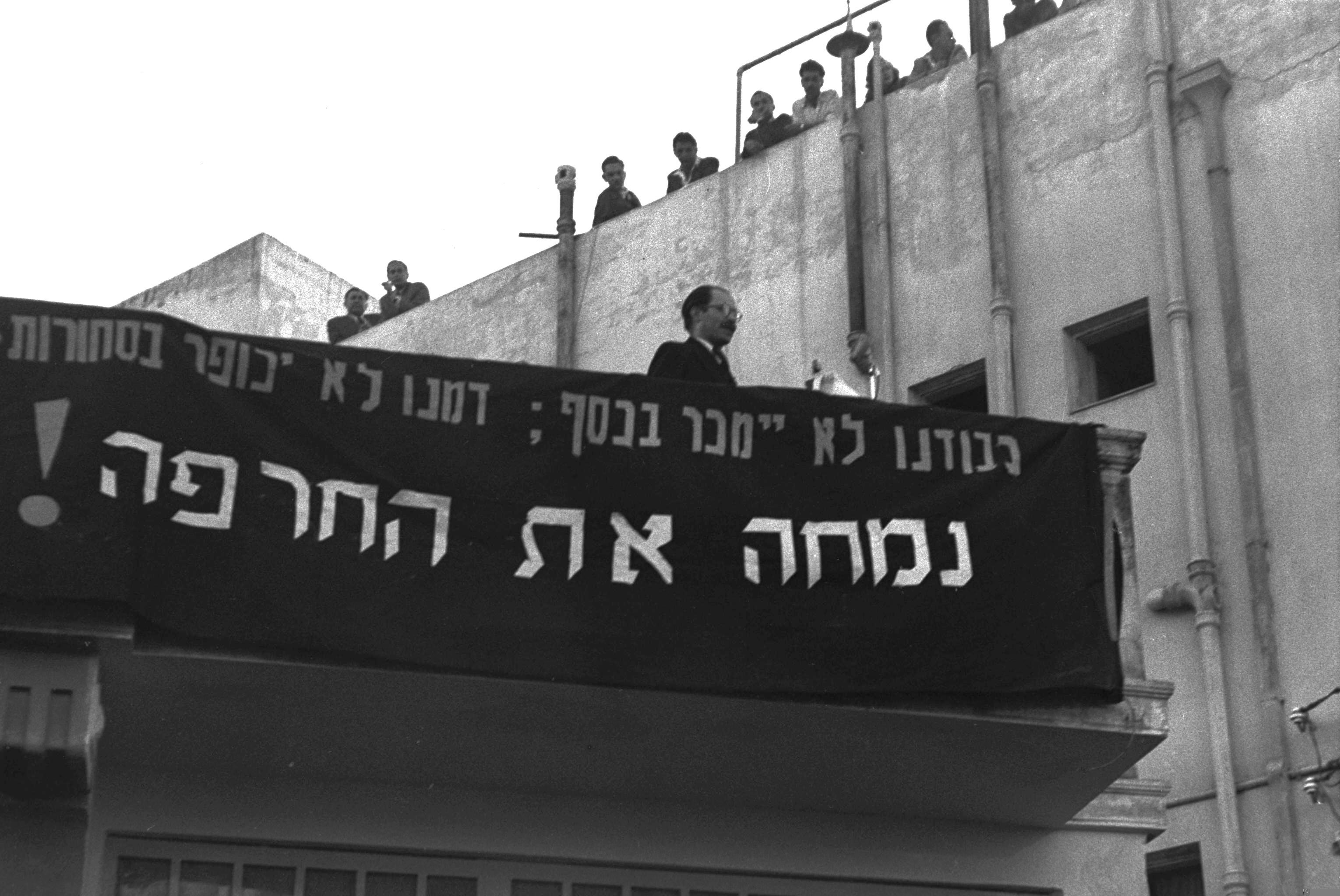 Herut party head Menachem Begin addressing a mass demonstration against negotiations with Germany in Tel Aviv